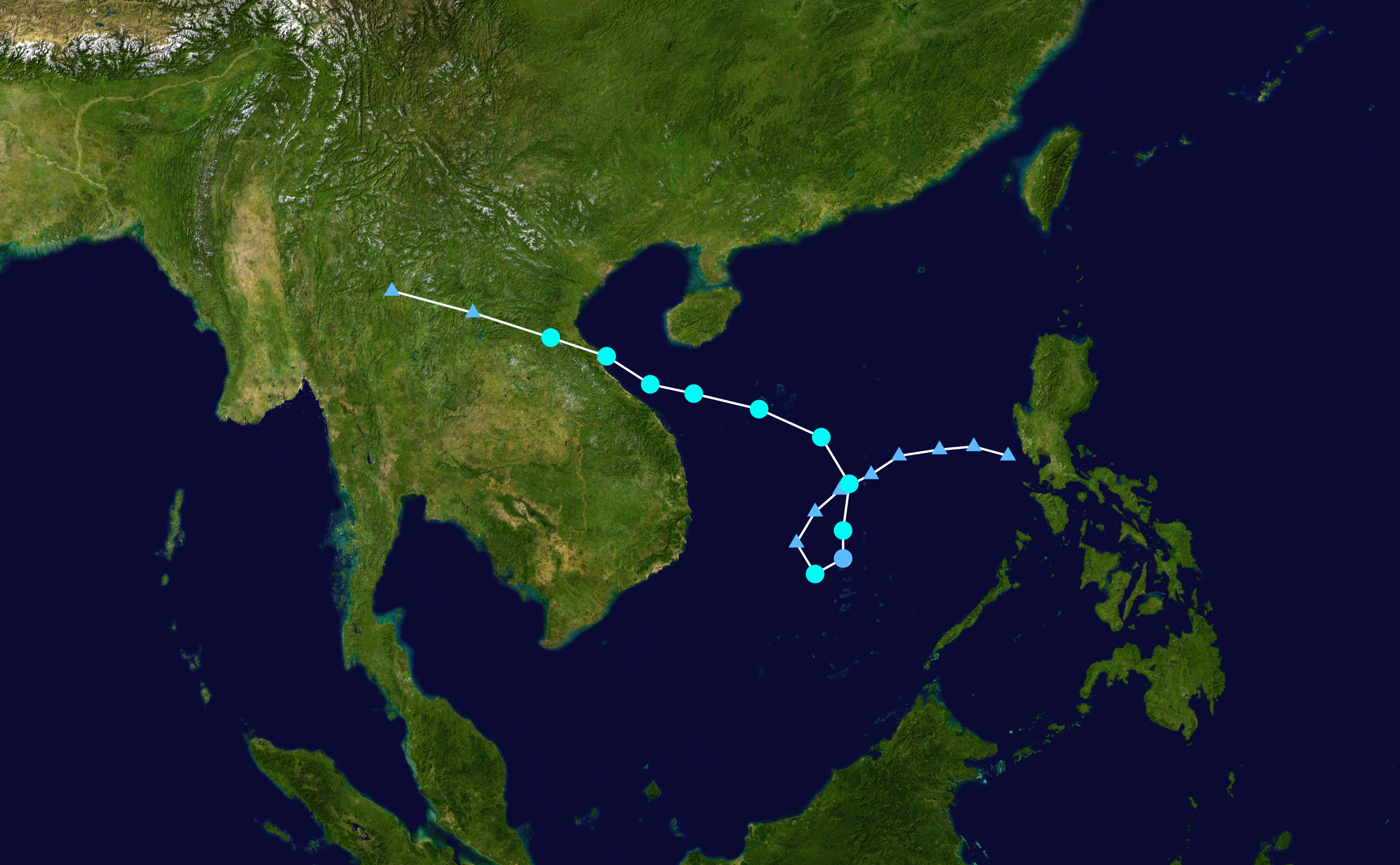 Tropical Storm Vicente 2005 track. Uses the color scheme from the Saffir-Simpson Hurricane Scale.